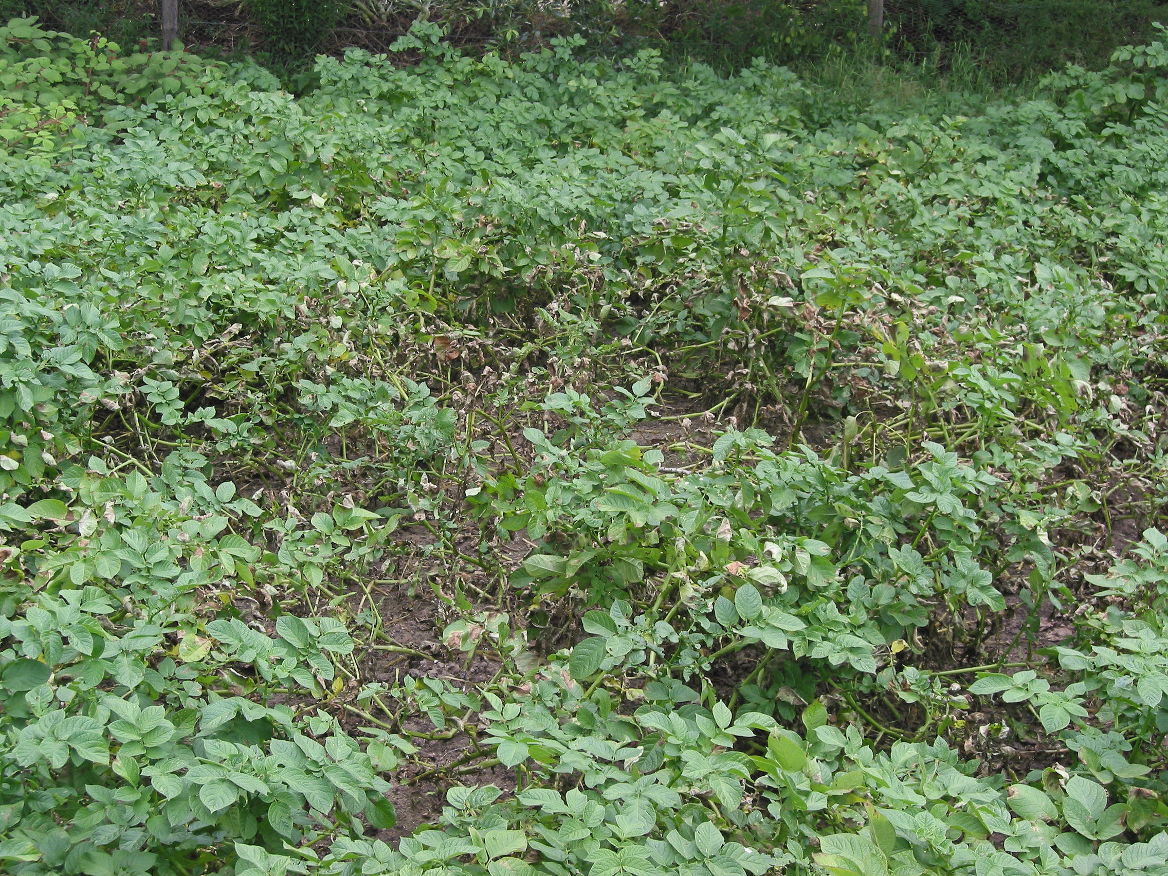 Phytophthora infestans bij Parel